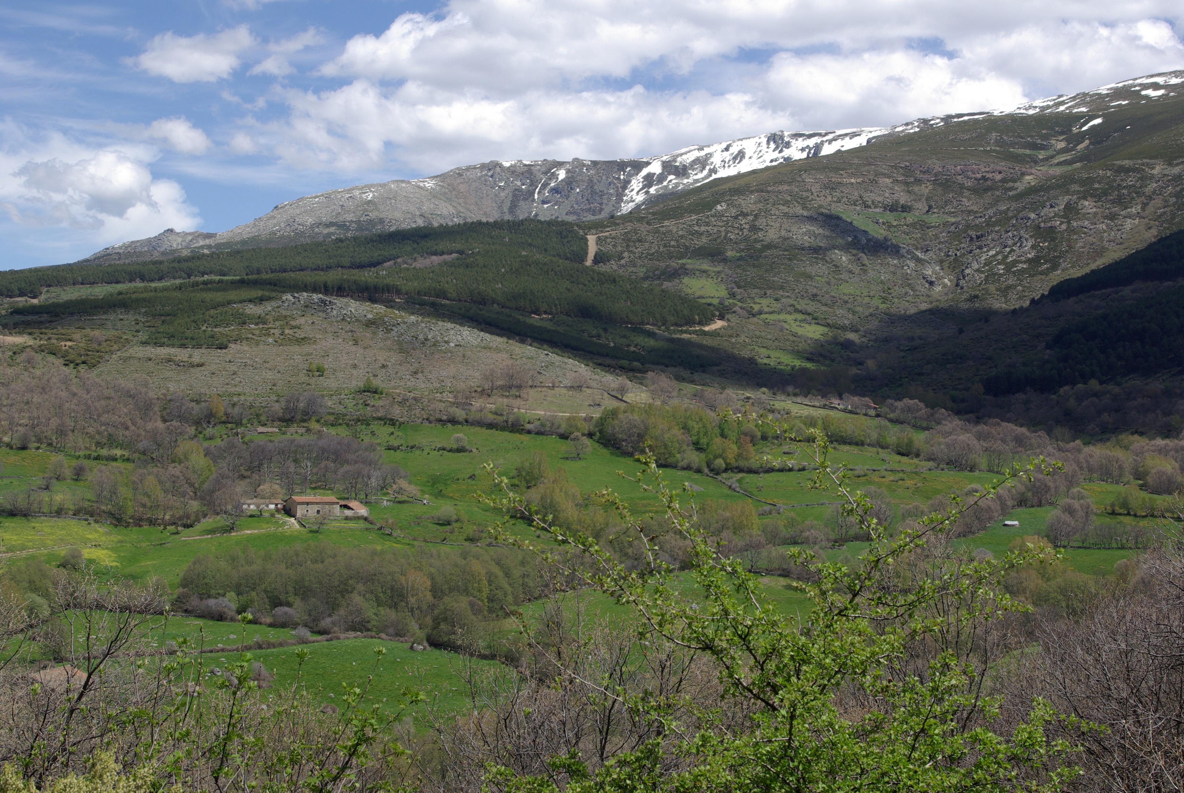 Candelario Range and river Jarilla valley. Candelario (Salamanca, Spain).